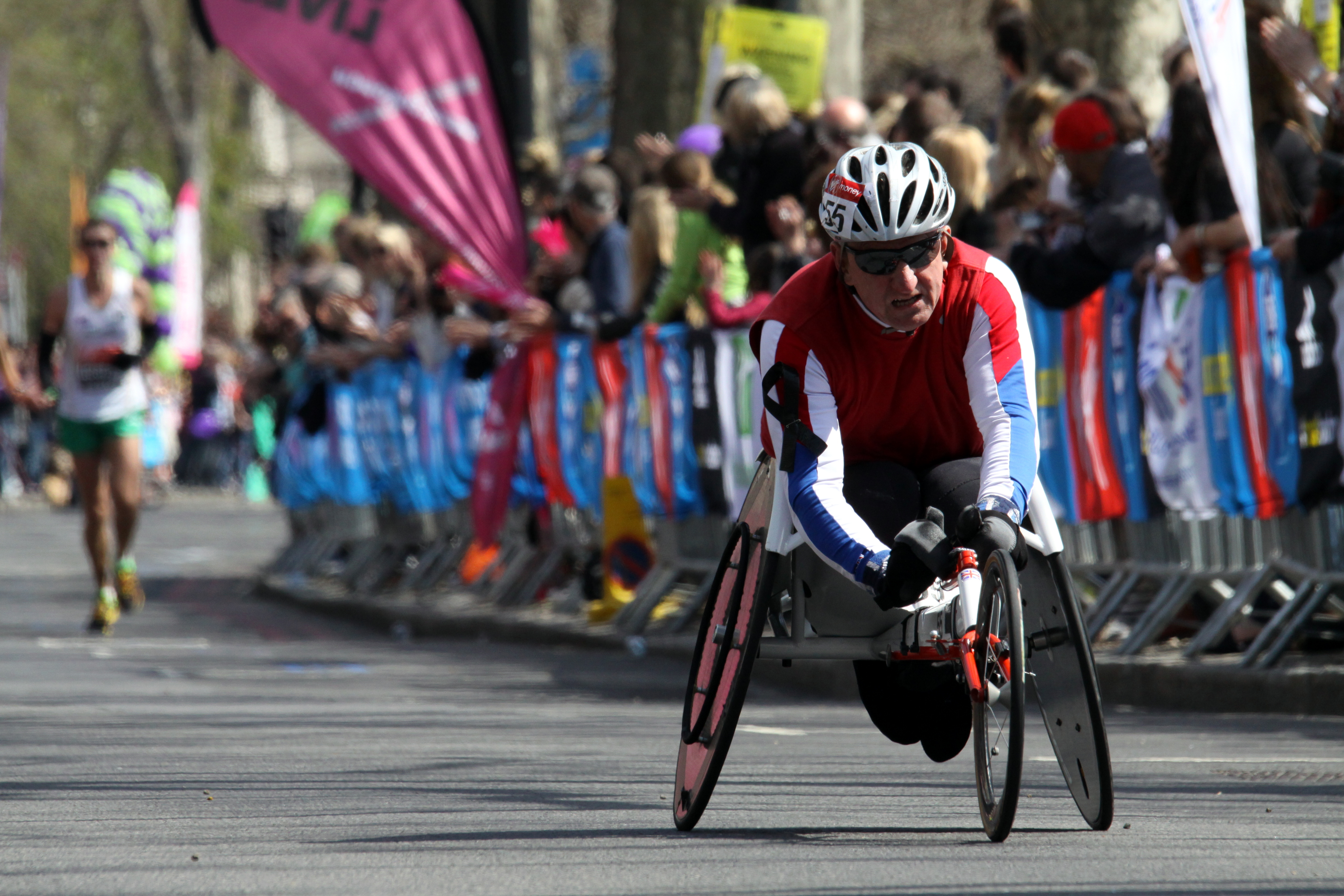 Wheelchair racer during 2013 London Marathon, photographed at Victoria Embankment, London, Great Britain. The making of this file was supported by Wikimedia UK.